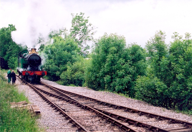 Shunting the engine. On the East Somerset Railway. This is the end of the line at Mendip Vale Station and the engine is being shunted to head the train back to Cranmore.